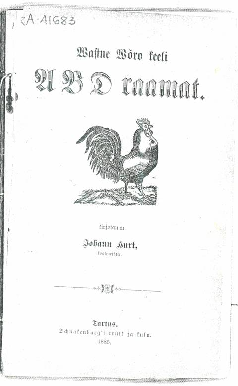 A title page image of an old (1885) ABC-book (primer) in Võro language written by Johann Hurt "Wastne Võro keeli ABD raamat"